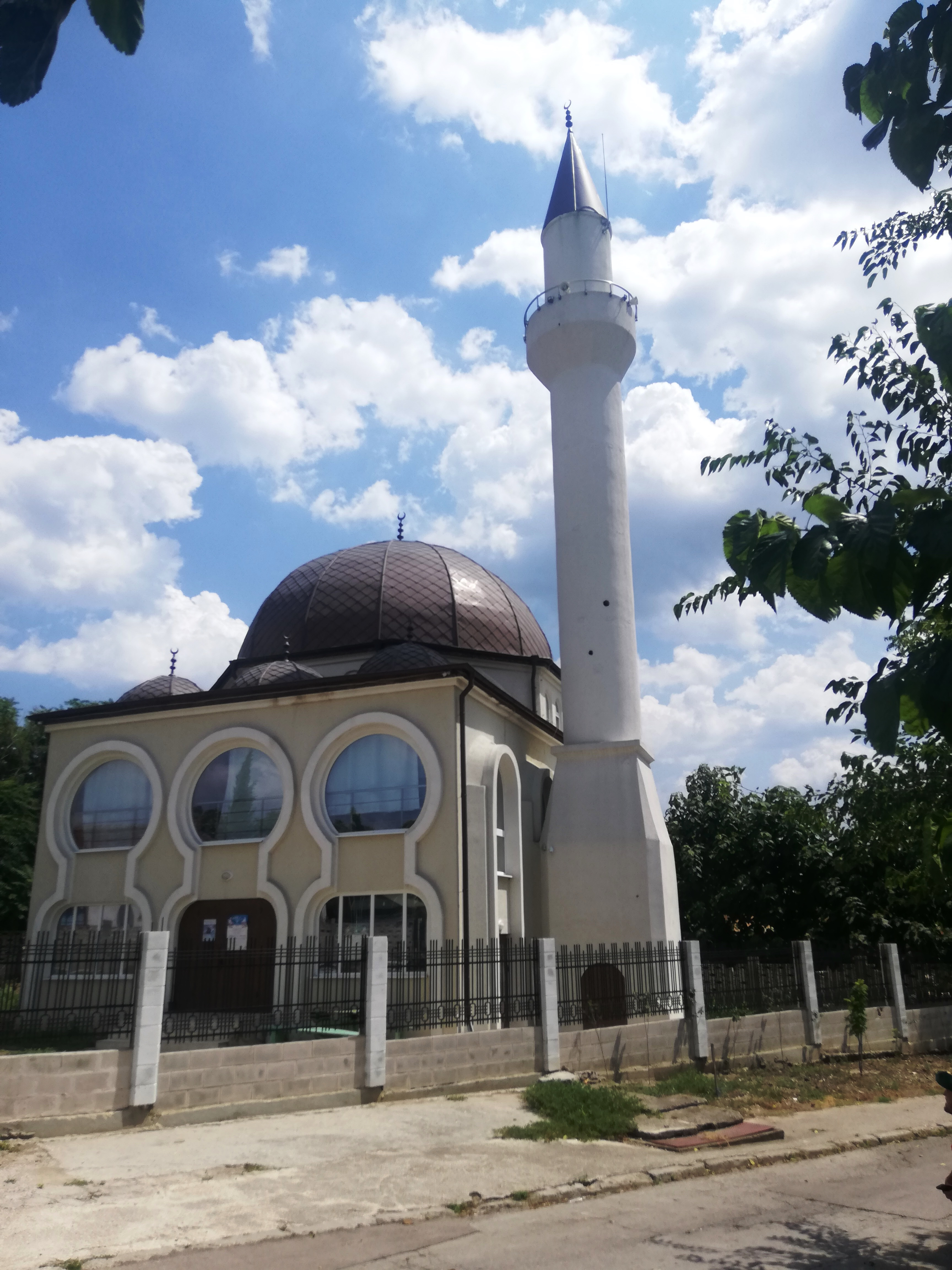 A mosque in Ezerovo, Varna Province